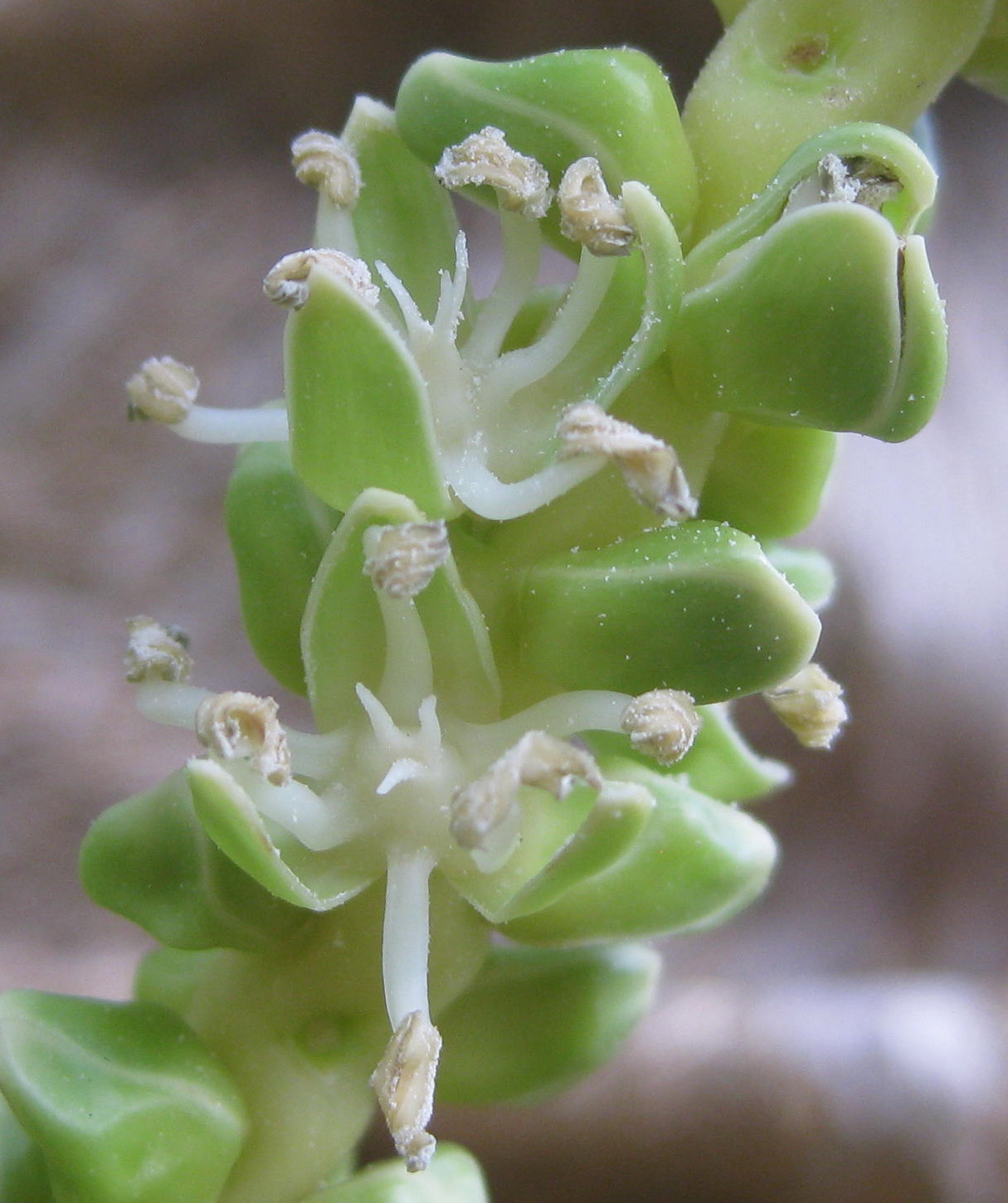 Close-up of flowers of the coconut palm.